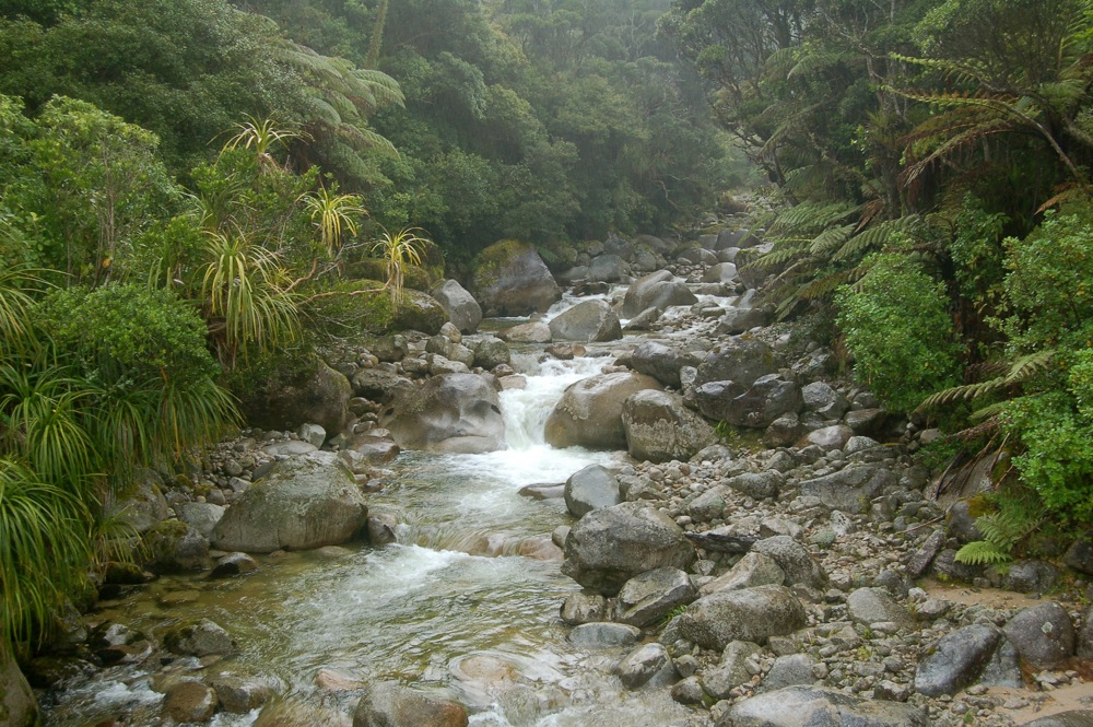 Stream on the Heaphy Track, Kahurangi National Park.